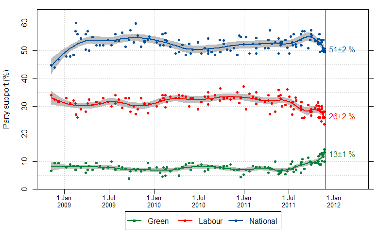 Graph showing support for political parties in New Zealand since the 2008 election, according to various political polls. Data is obtained from the Wikipedia page, Opinion polling for the New Zealand general election, 2011